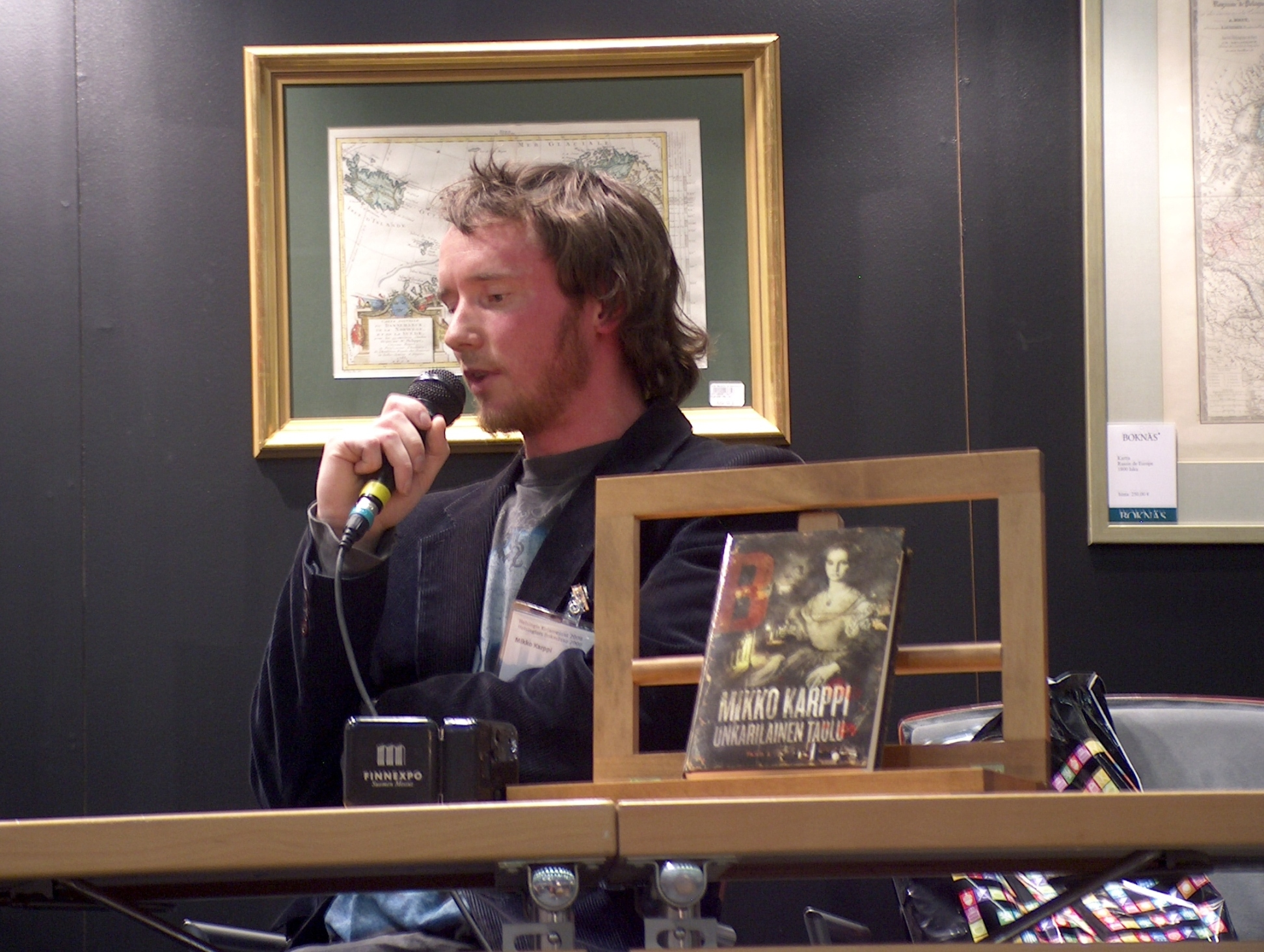 Finnish writer Mikko Karppi at the Helsinki Book Fair in 2008